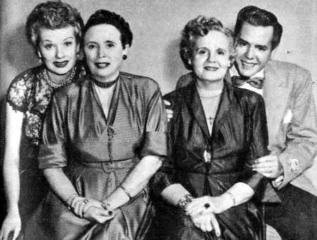 Photo of Lucille Ball and Desi Arnaz with their mothers. From left-Lucille Ball, Desiree Ball, Dolores Arnaz, Desi Arnaz.